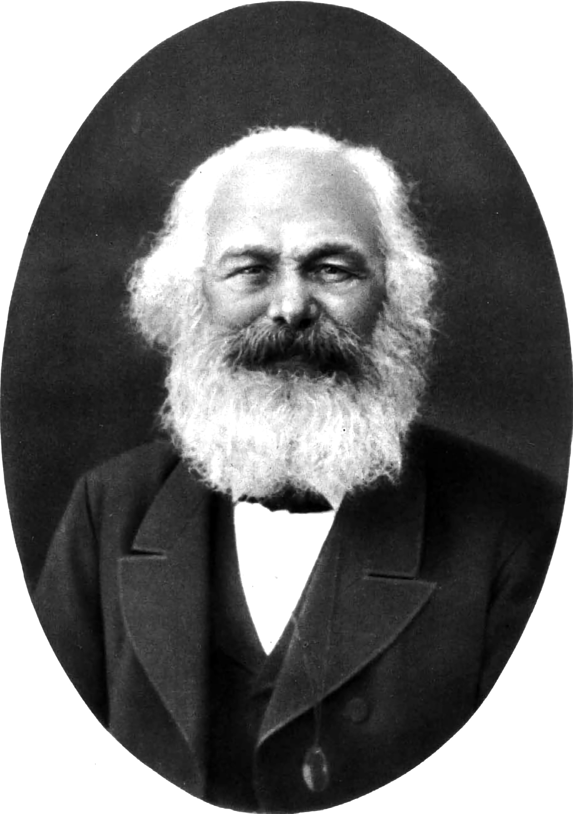 Karl Marx 28 April 1882 Last Photo (edited)